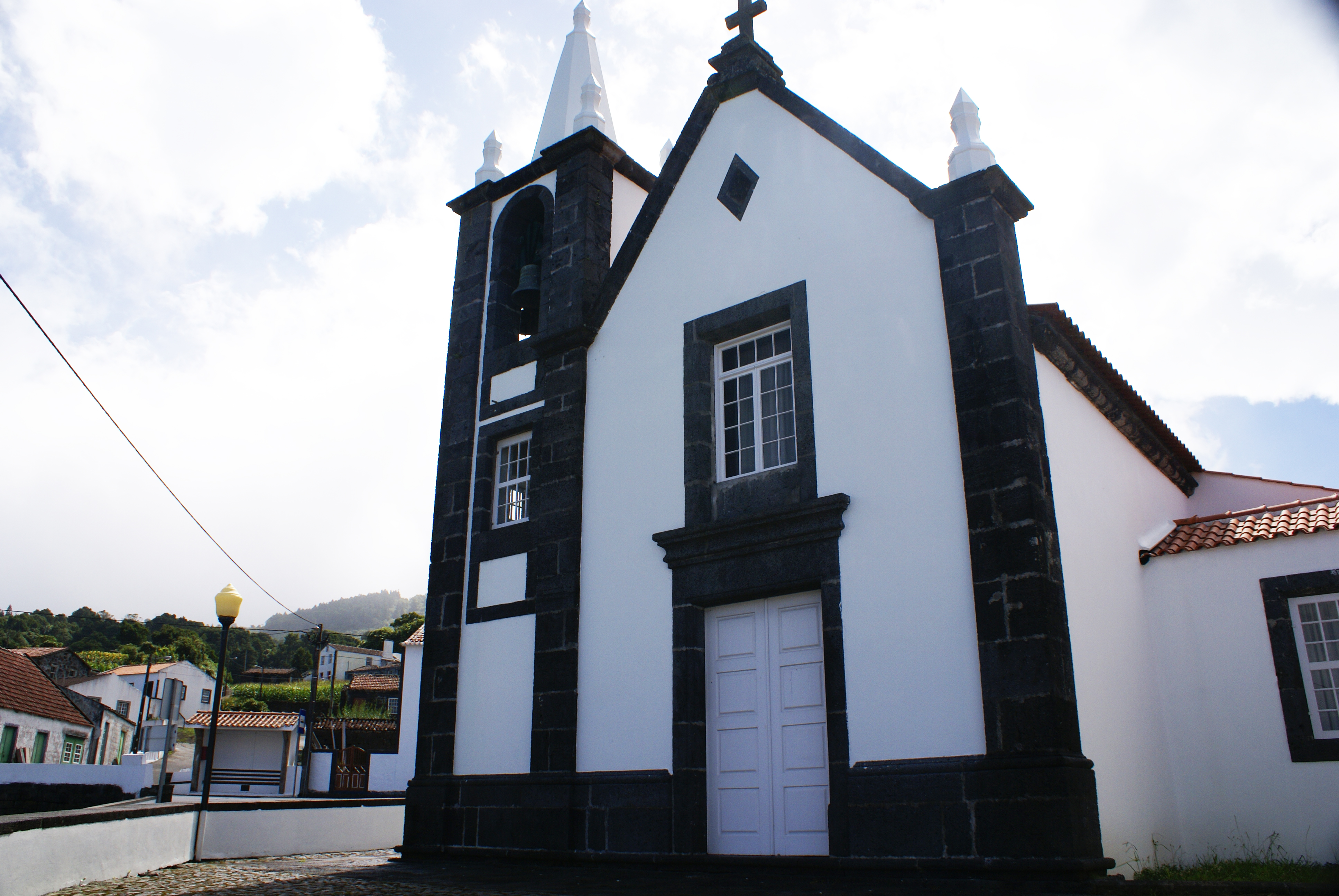 Igreja da Ribeirinha, orago Santo Antão, concelho das Lajes do Pico, ilha do Pico, Açores, Portugal